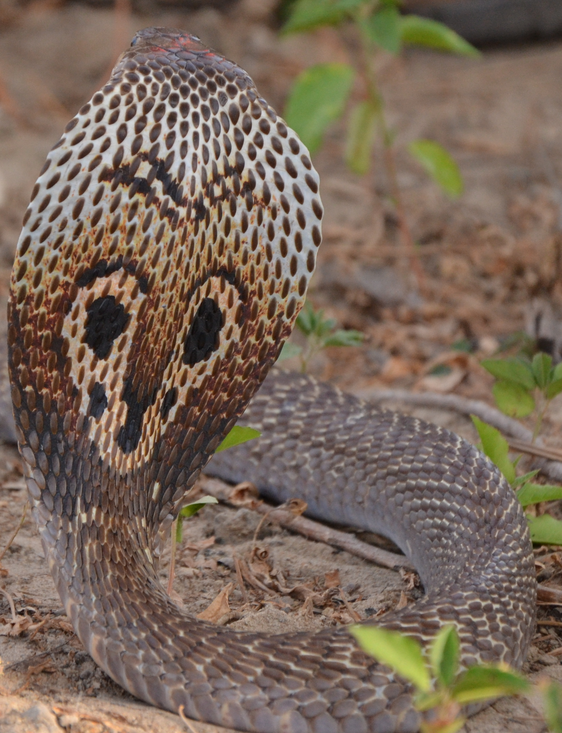 A Specatcled cobra with displaying his hood as a threat.